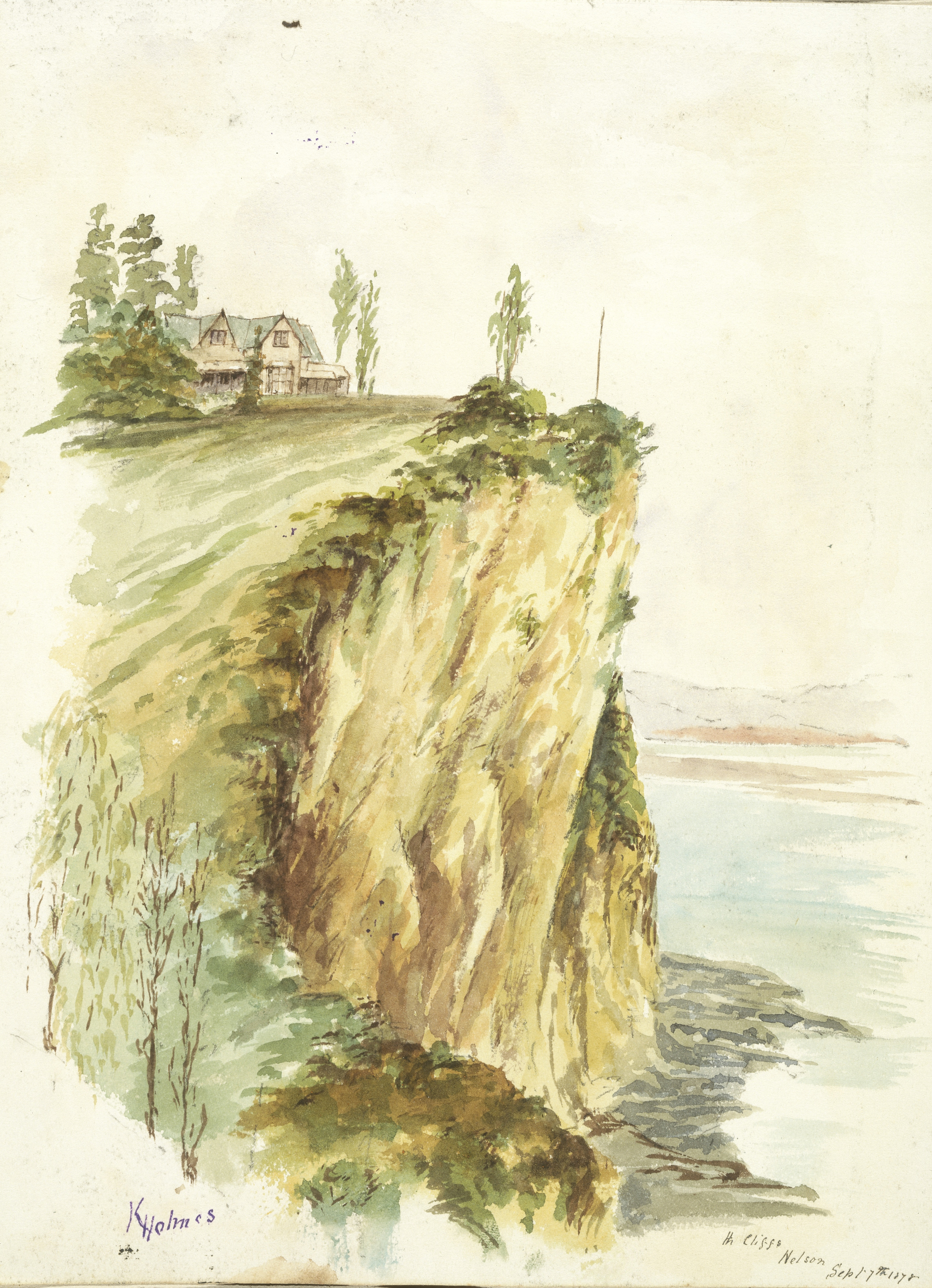 Shows a large house, possibly the house of Major Mathew Richmond, surrounded by trees at the top of a cliff in Nelson.